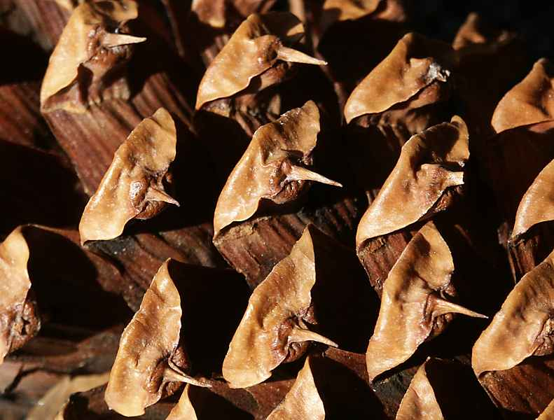 Detail of scales and bristles on a mature cone from a Bristlecone Pine in the Snake Range of Nevada